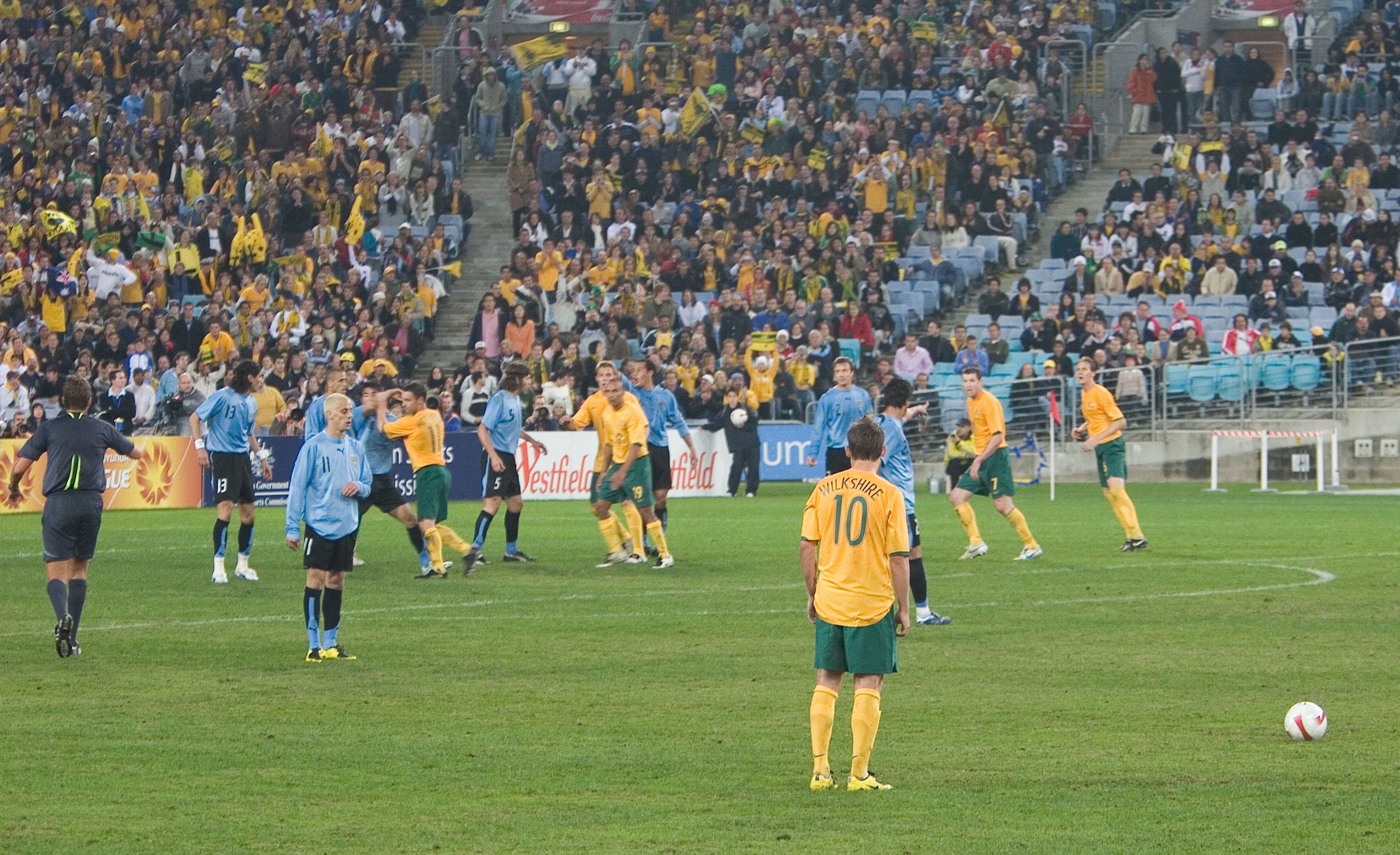 Australia vs Uruguay football (soccer) match 2007-06-02.